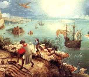 The Fall of Icarus